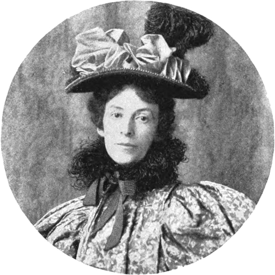 Portrait of Laura Coombs Hills, ca. 1899.